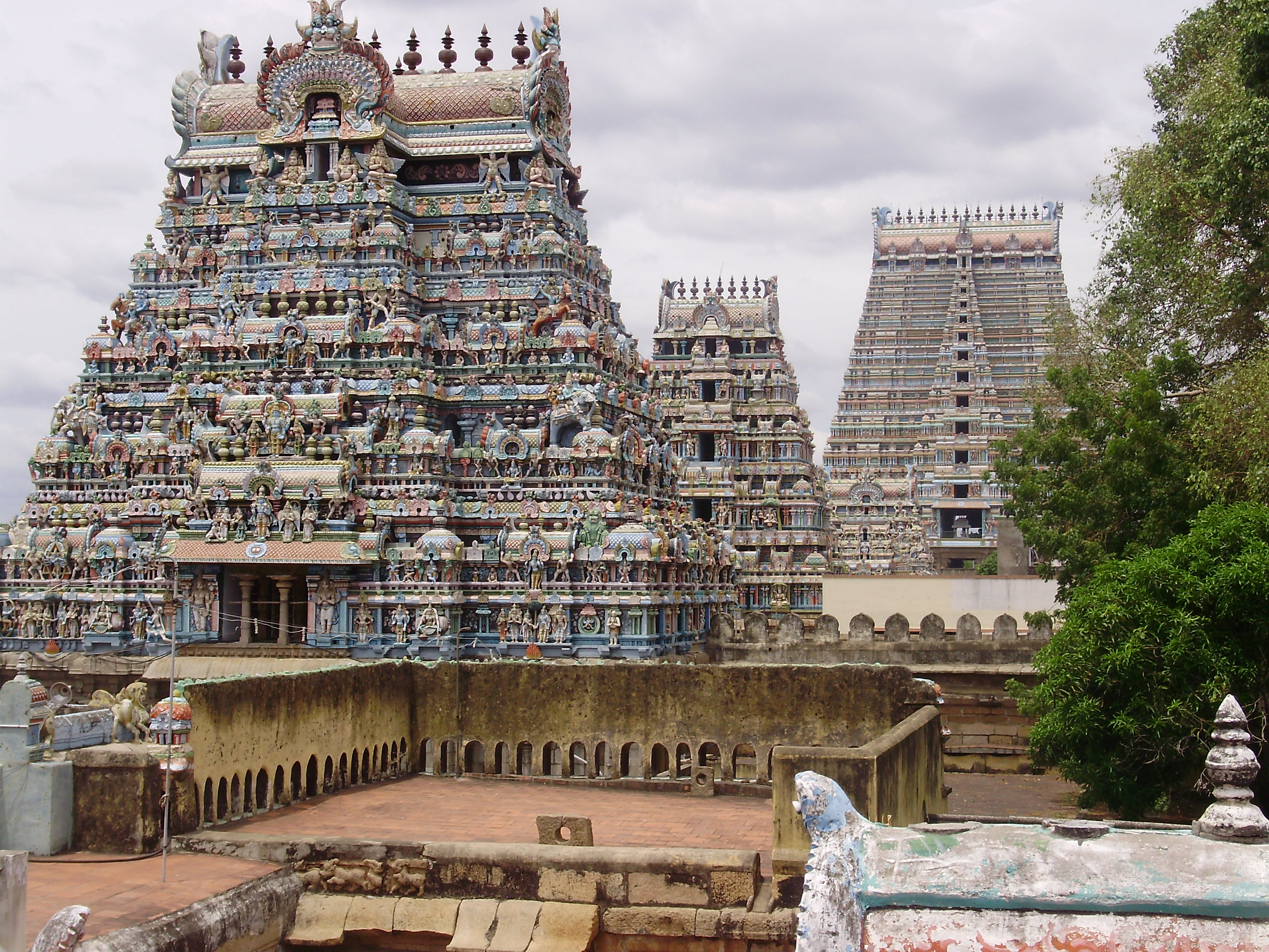 வரிசையான கோபுரங்கள்